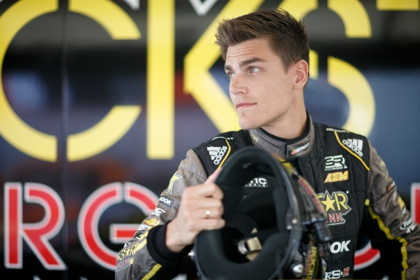 Fredric Aasbo.